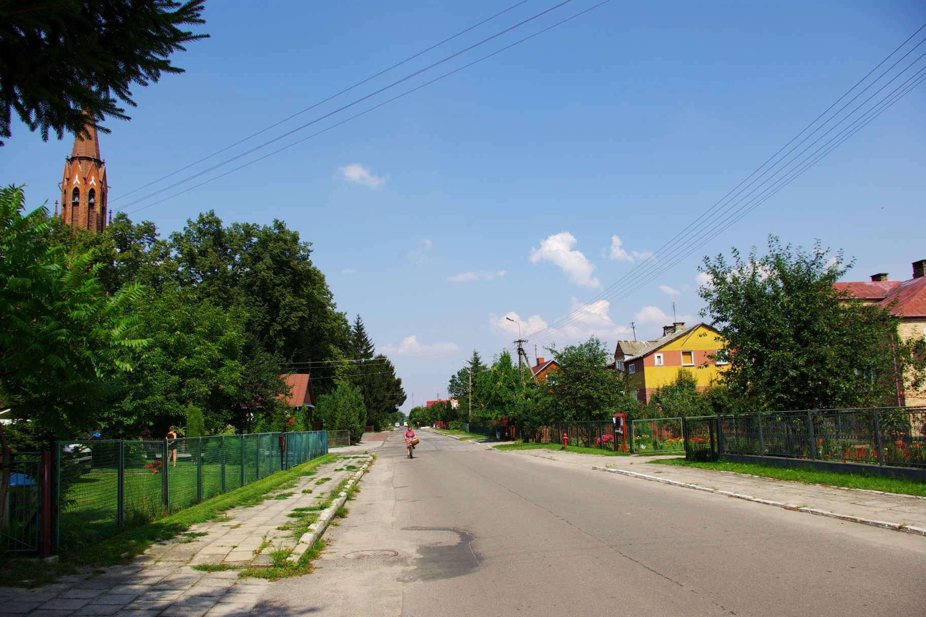 Łomazy, Podrzeczna street